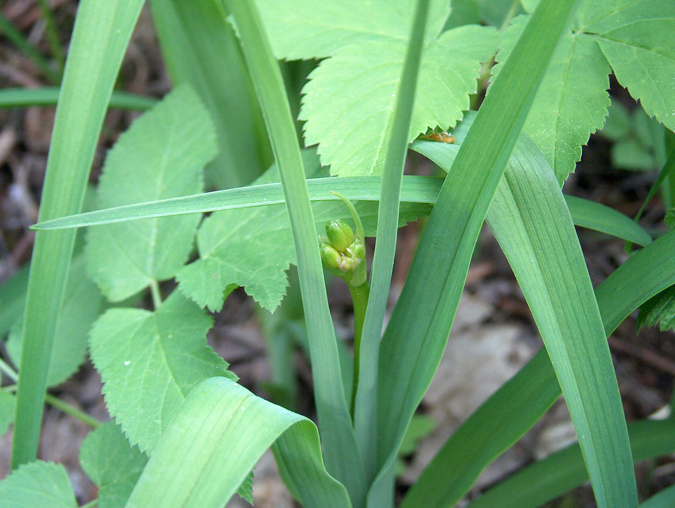 Hemerocallis lilio-asphodelus - Yellow Daylily Buds